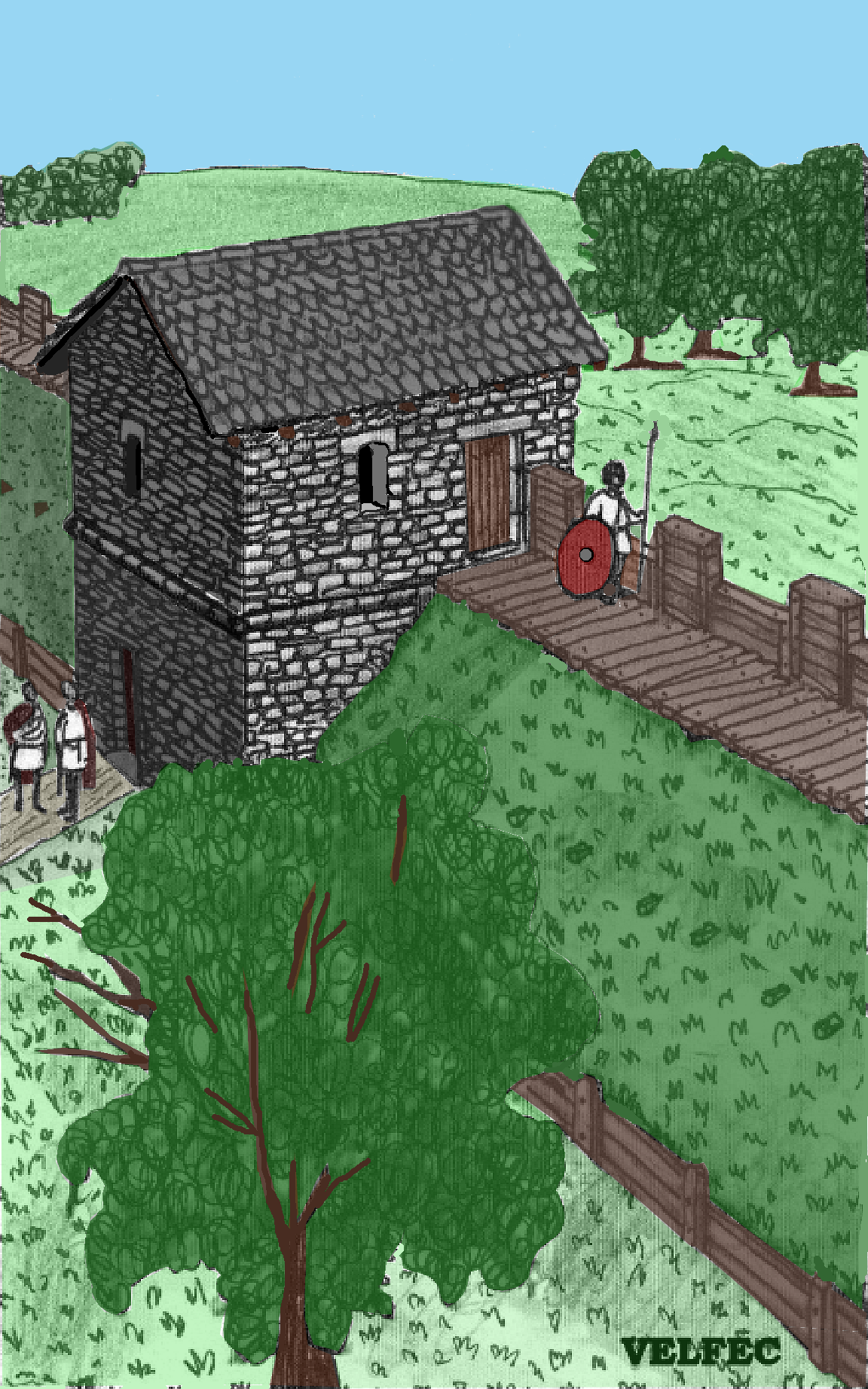 Artist's impression of Turret 49A on the site of the Roman fort Birdoswald (Banna / Hadrian's Wall). He secured the early earth-timber-wall. The watchtower lay near the Principia and was demolished during construction of the fort.